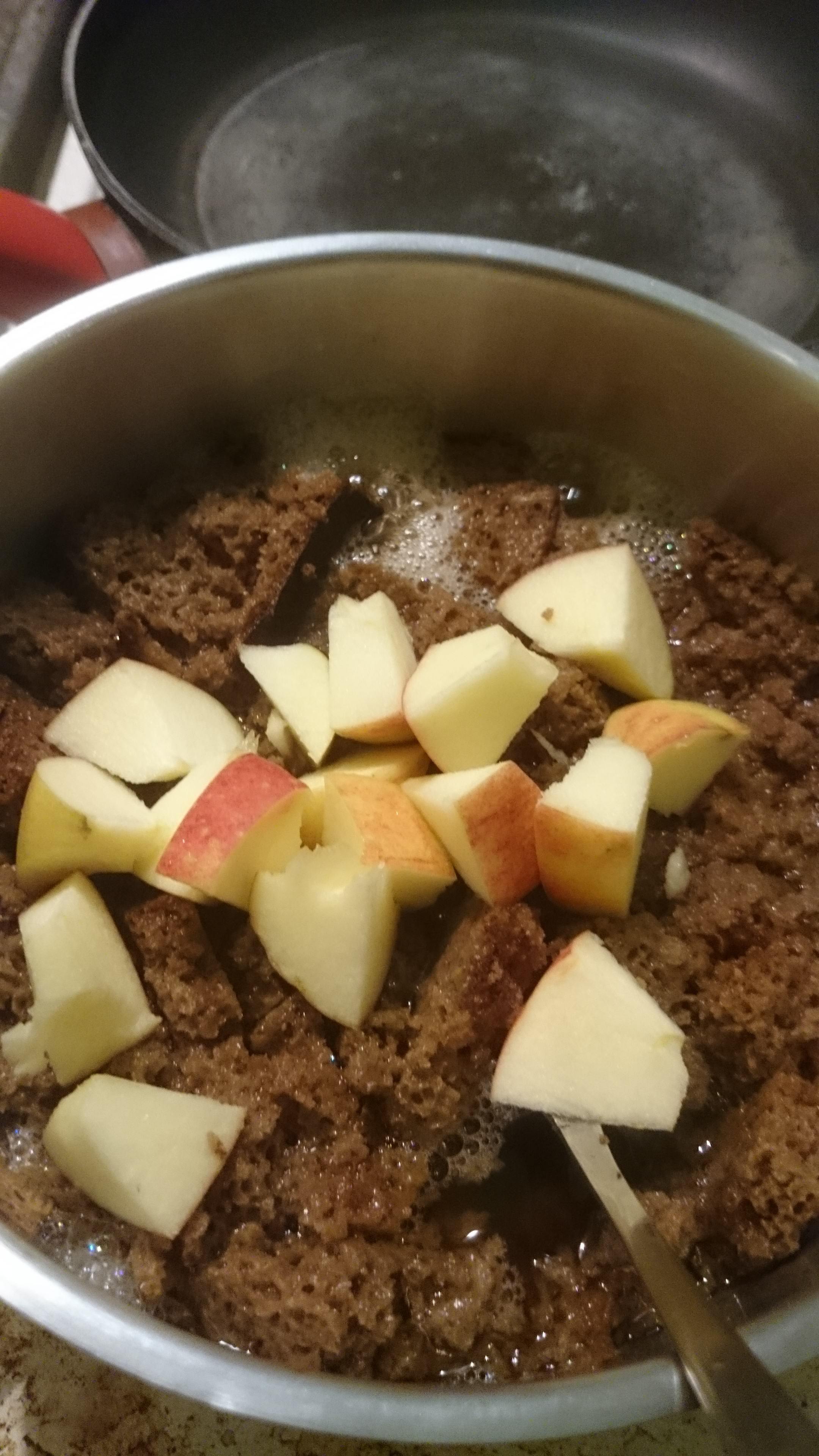 Bread soup